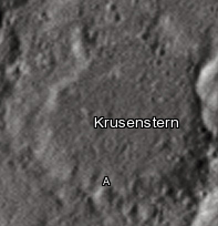 Krusentstern lunar crater as seen from Earth with satellite craters labeled